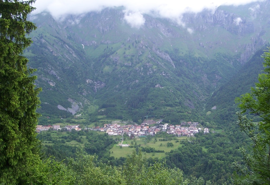 Villa of Lozio